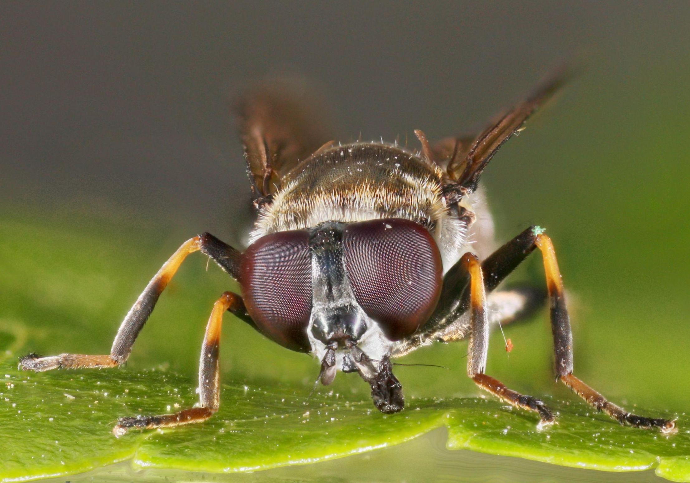 Female hoverfly Xylota jakutorum